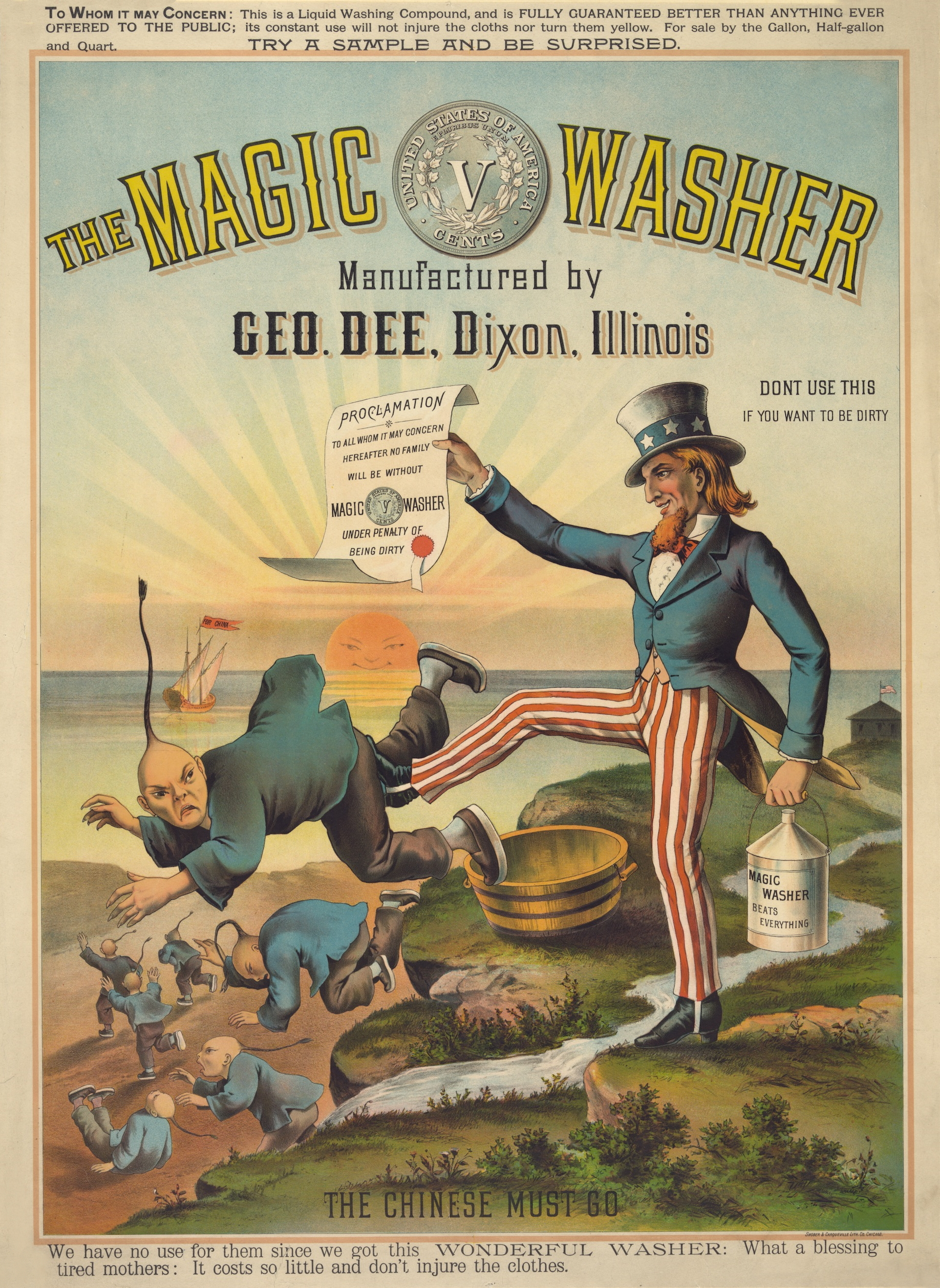 US commercial/ political cartoon: Uncle Sam kicks out the Chinaman, referring both to the 1882 Chinese Exclusion Act, and also to the "Magic Washer." The actual purpose of the poster was to promote the "George Dee Magic Washer," which the machine's manufacturers clearly hoped would displace Chinese laundry operators. Image published in 1886 - Copyright now expired.